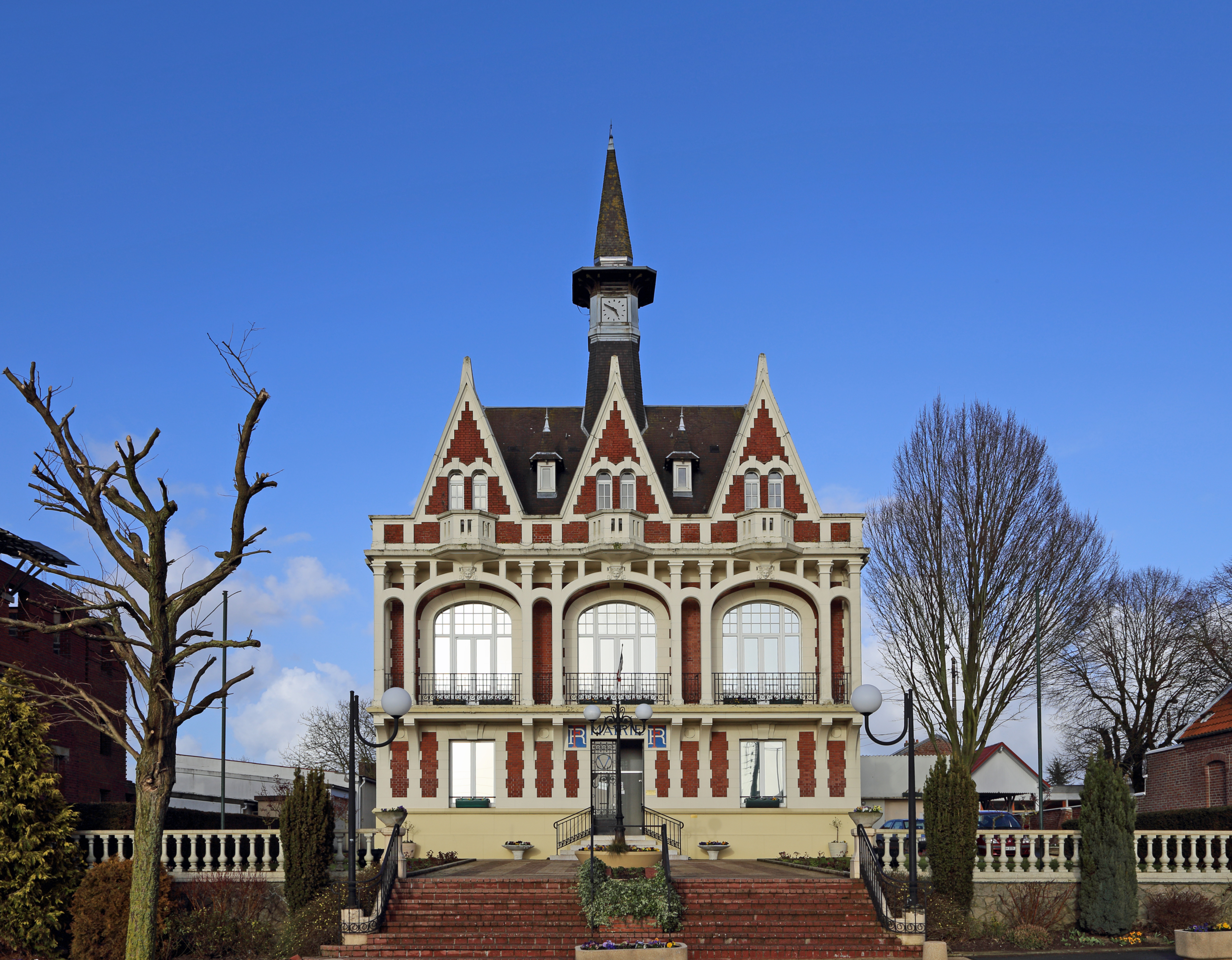 Vimy (département du Pas-de-Calais, France): town hall